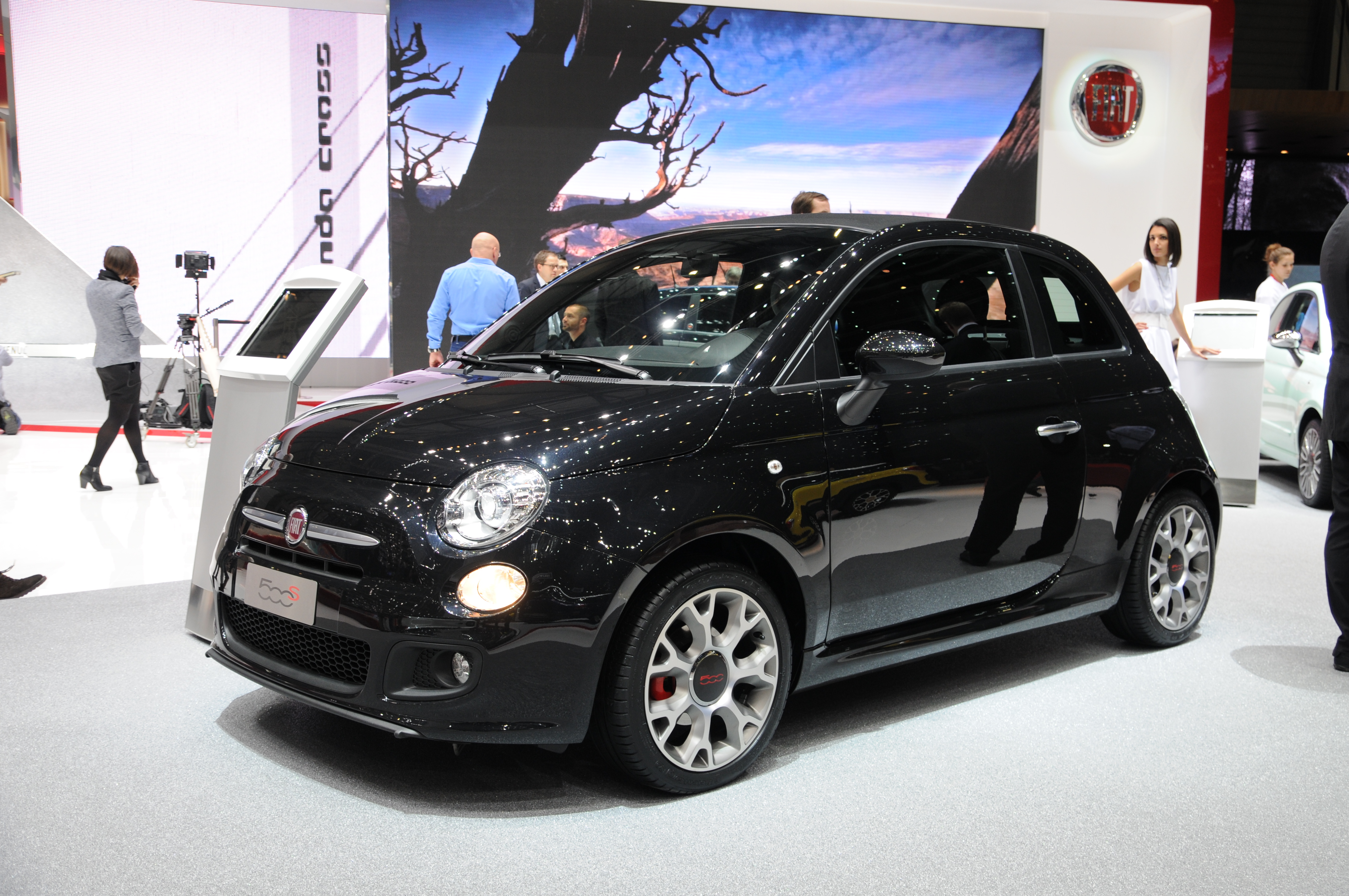 Geneva Motor Show 2014 (photo taken on the first press day)